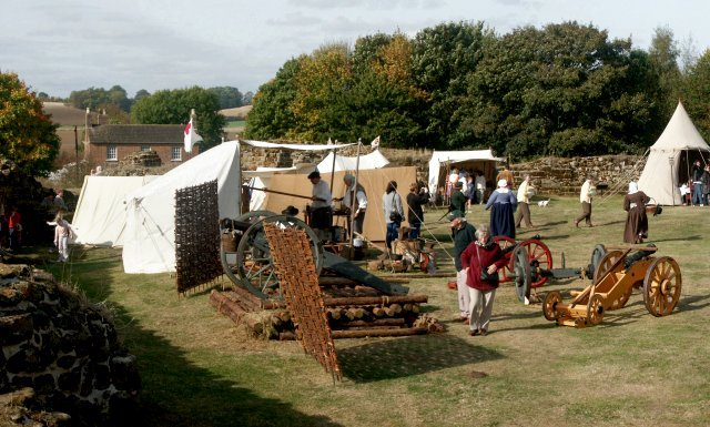 Bolingbroke Castle re-enactment - 1 of 3 A major re-enactment in 2003 as part of a project to commemorate the 360th anniversary of the events of 1643. 2 of 3 3 of 3 This image doesn't appear to be a panorama, but note the person who appears twice.